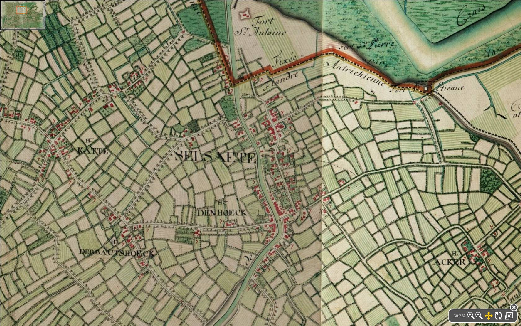 Zelzate,_Belgium,_Ferraris_Map,_1775.jpg